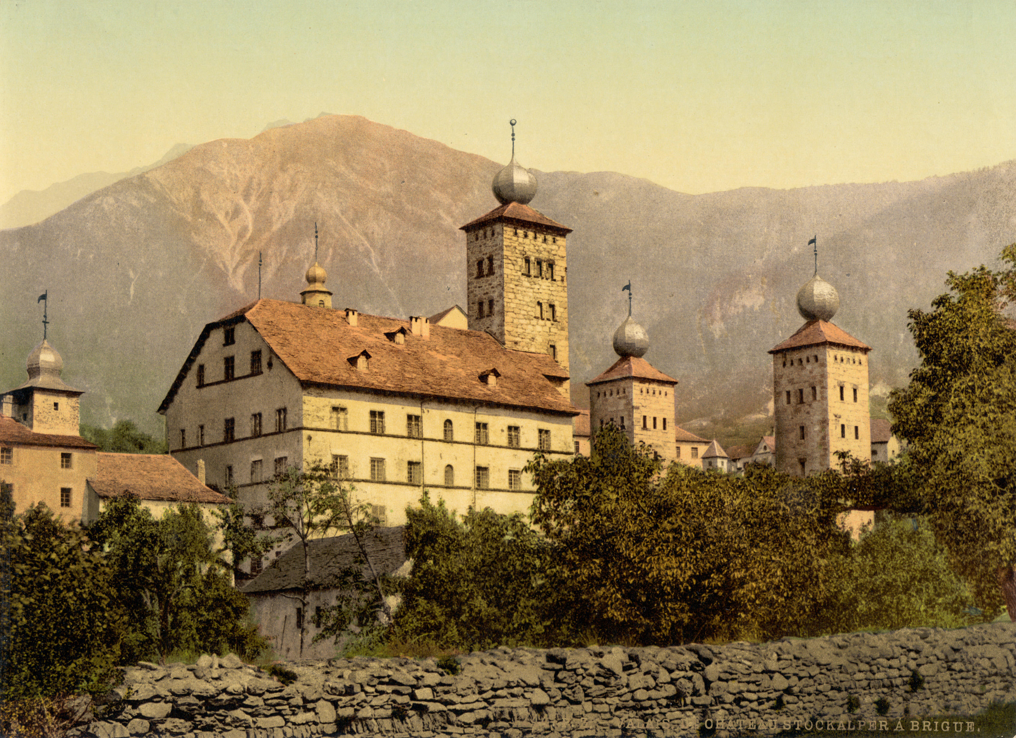 Photochrom print by Photoglob Zürich, between 1890 and 1900. From the Photochrom Prints Collection at the Library of Congress More photochroms from Switzerland | More photochrom prints [PD] This picture is in the public domain